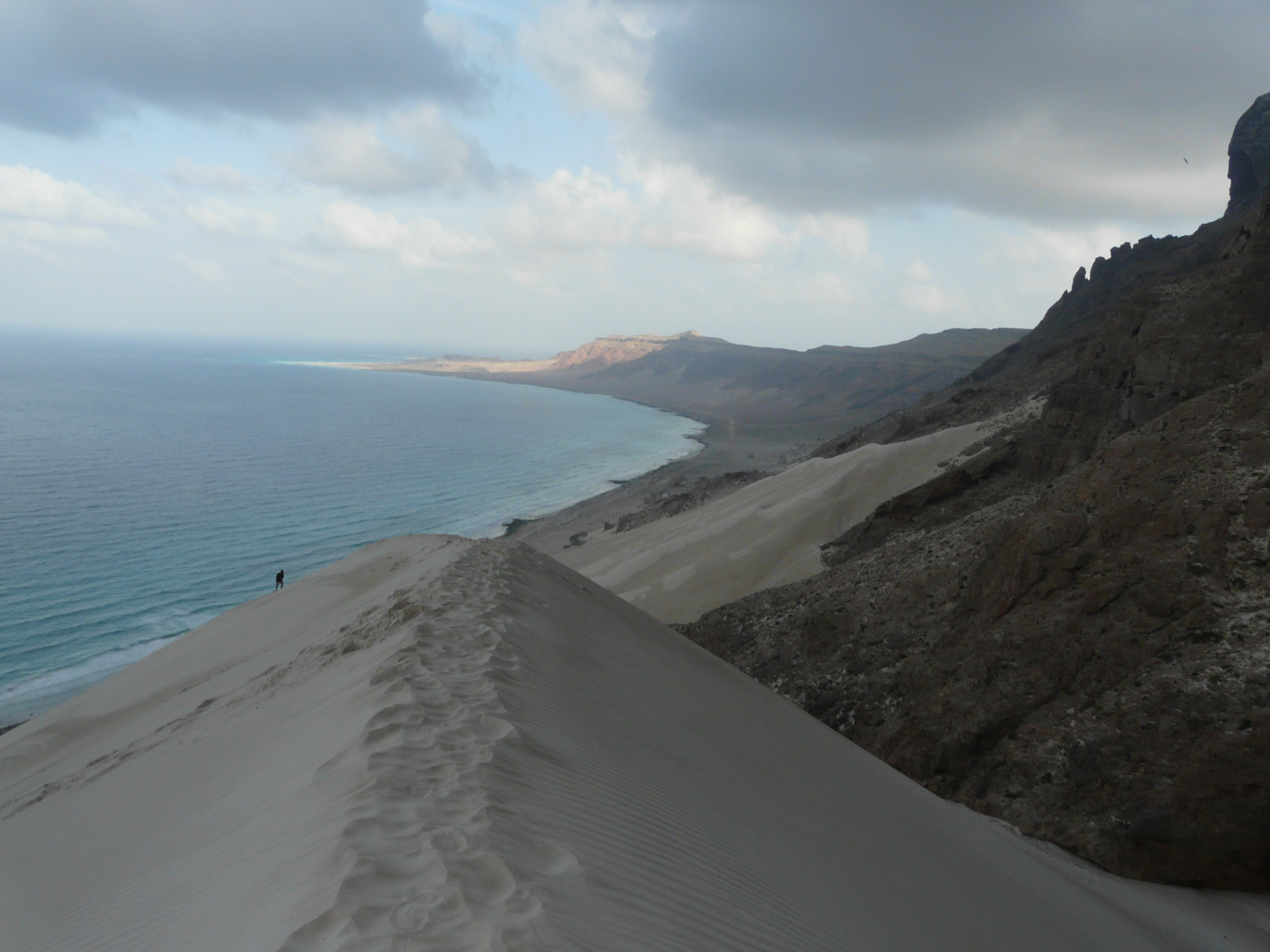 Arar, east of Socotra island.